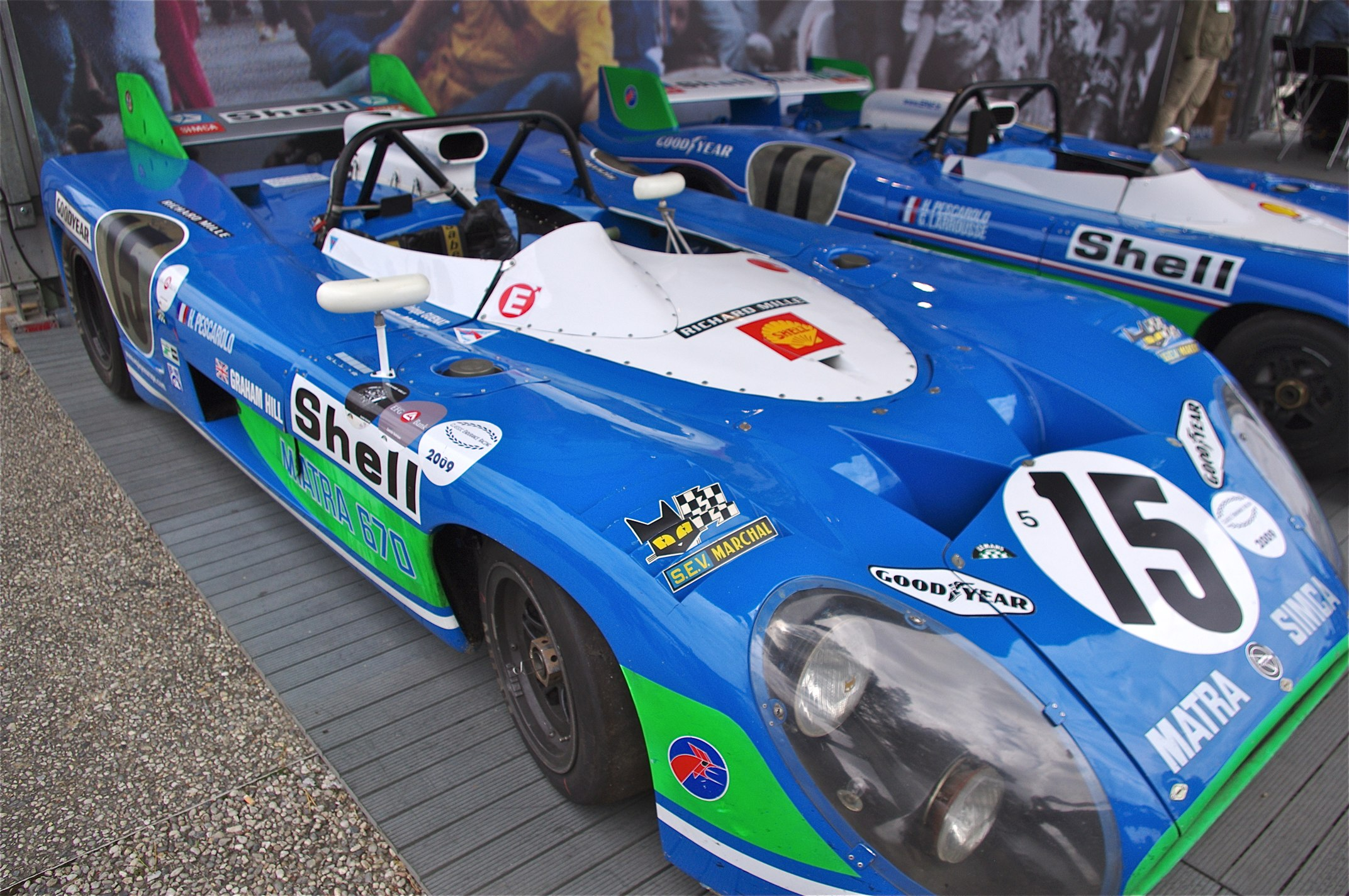 Matra Simca MS 670 Driven to victory at the 1972 Le Mans 24 Hours by Henri Pescarolo and Graham Hill Pit Walk, Le Mans 24 Hours, 2012